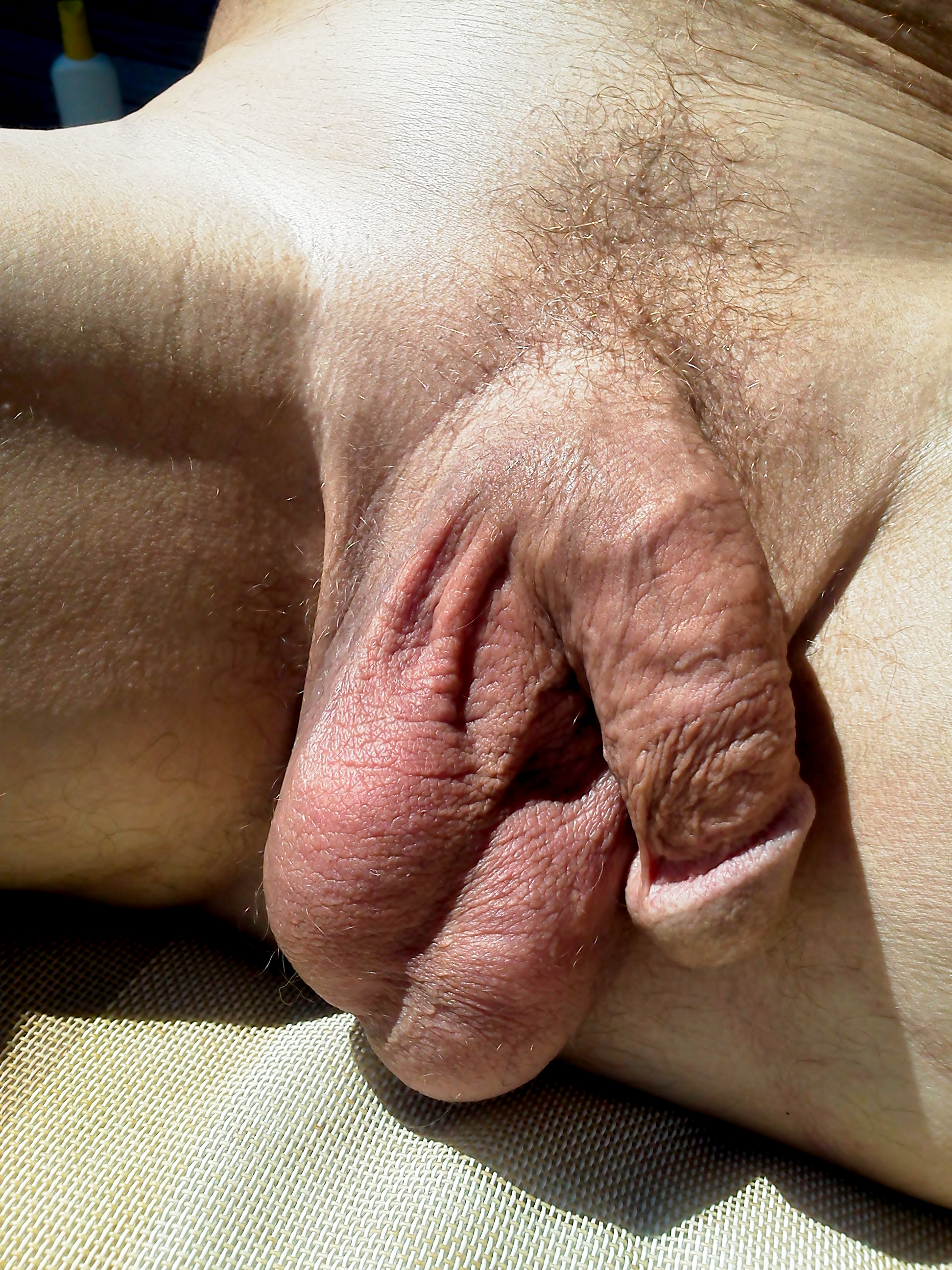 Close-up of male human genitalia with asymmetrical testicles, flaccid state. Tweezed pubic hair